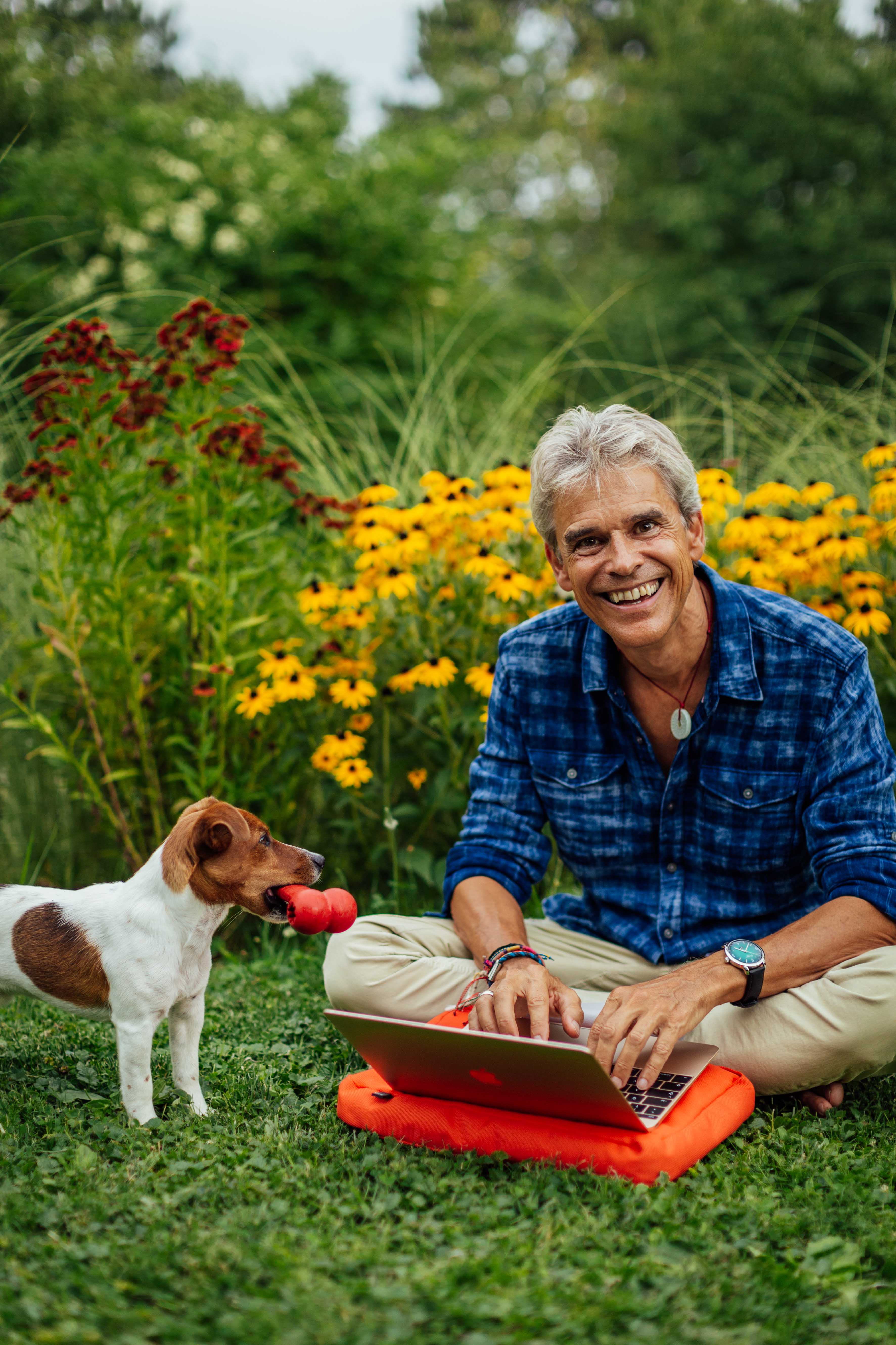 A picture of Thomas Brezina with his dog Joppy in his garden in Vienna.